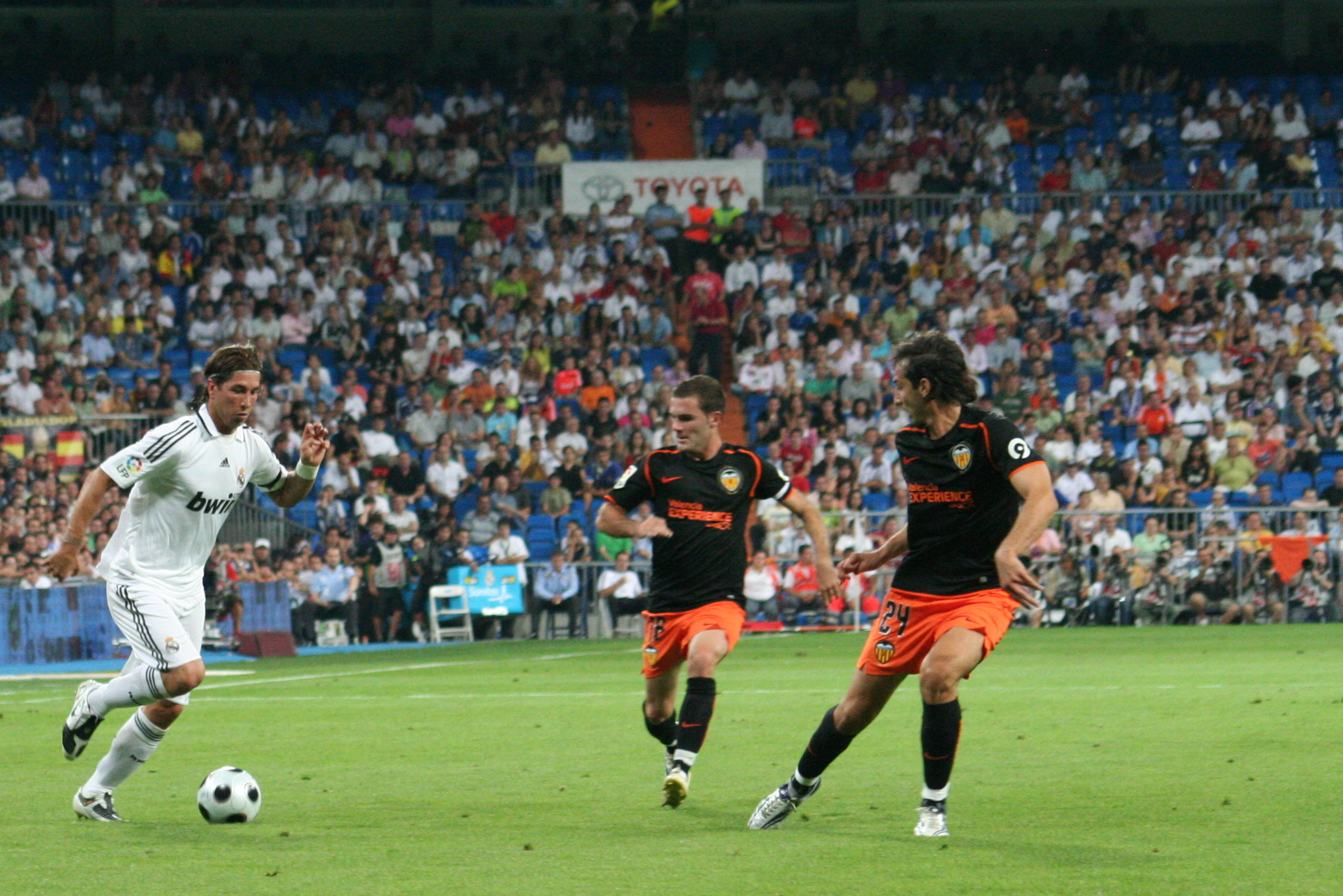 Sergio Ramos (in white) against Valencia.